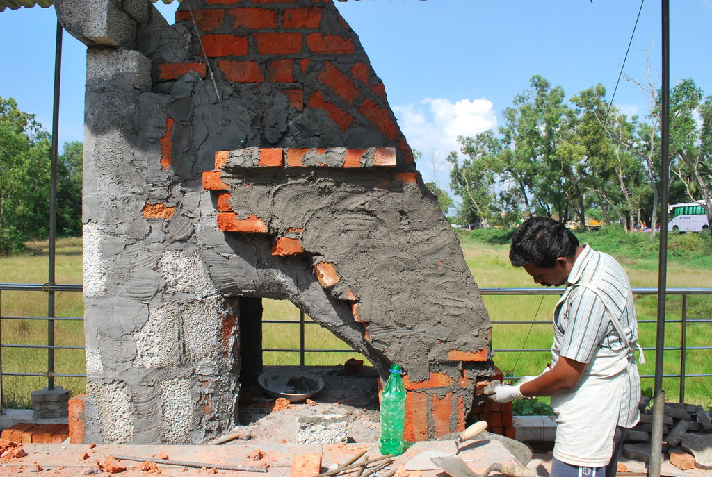 Sculptor c.s. baiju at Kerala Lalitha kala academis sculptor camp at Kayamkulam, Dec 2014